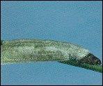 Coleophora laricella larva in case